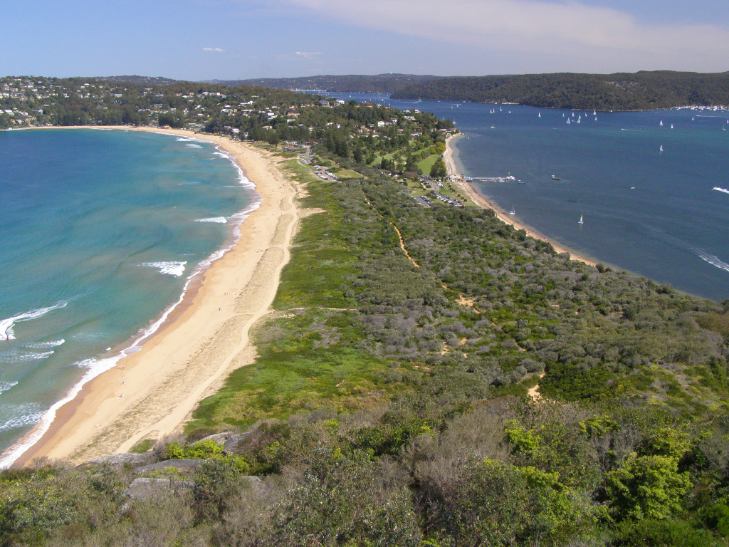 Palm Beach, Australia taken from Barrenjoey Head. This is also the setting for Network Seven's Soap Opera Home and Away